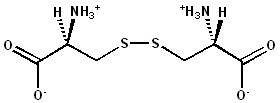 chemical structure of cystine